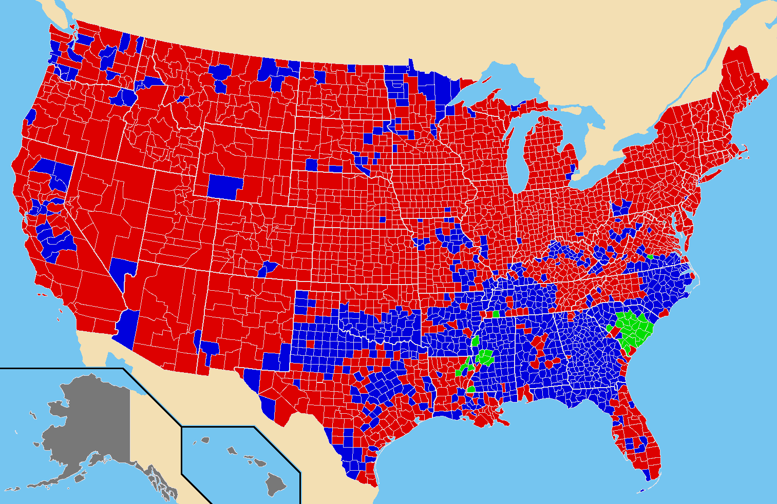 A map of the counties won by each candidate in the United States presidential election.